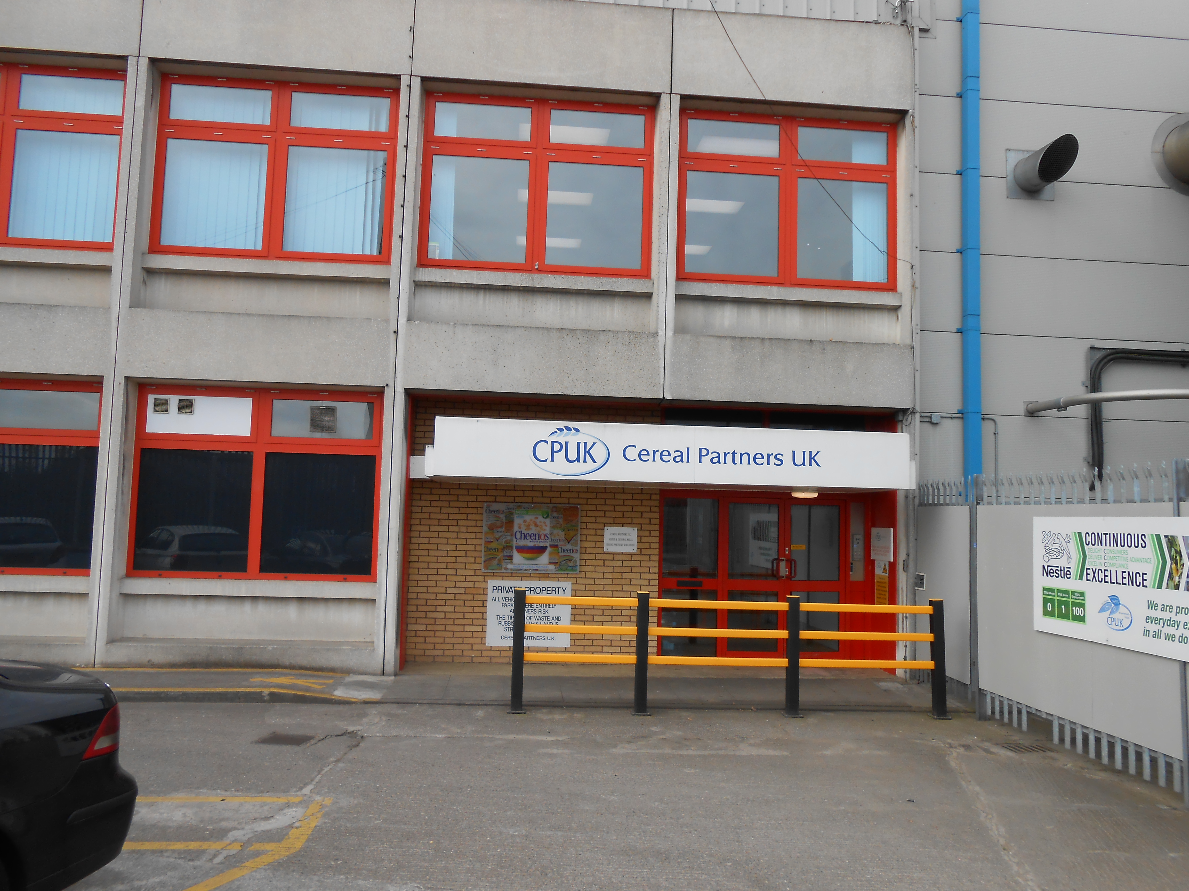 Entrance to Cereal Partners UK factory, Bromborough, Wirral, Merseyside, England.